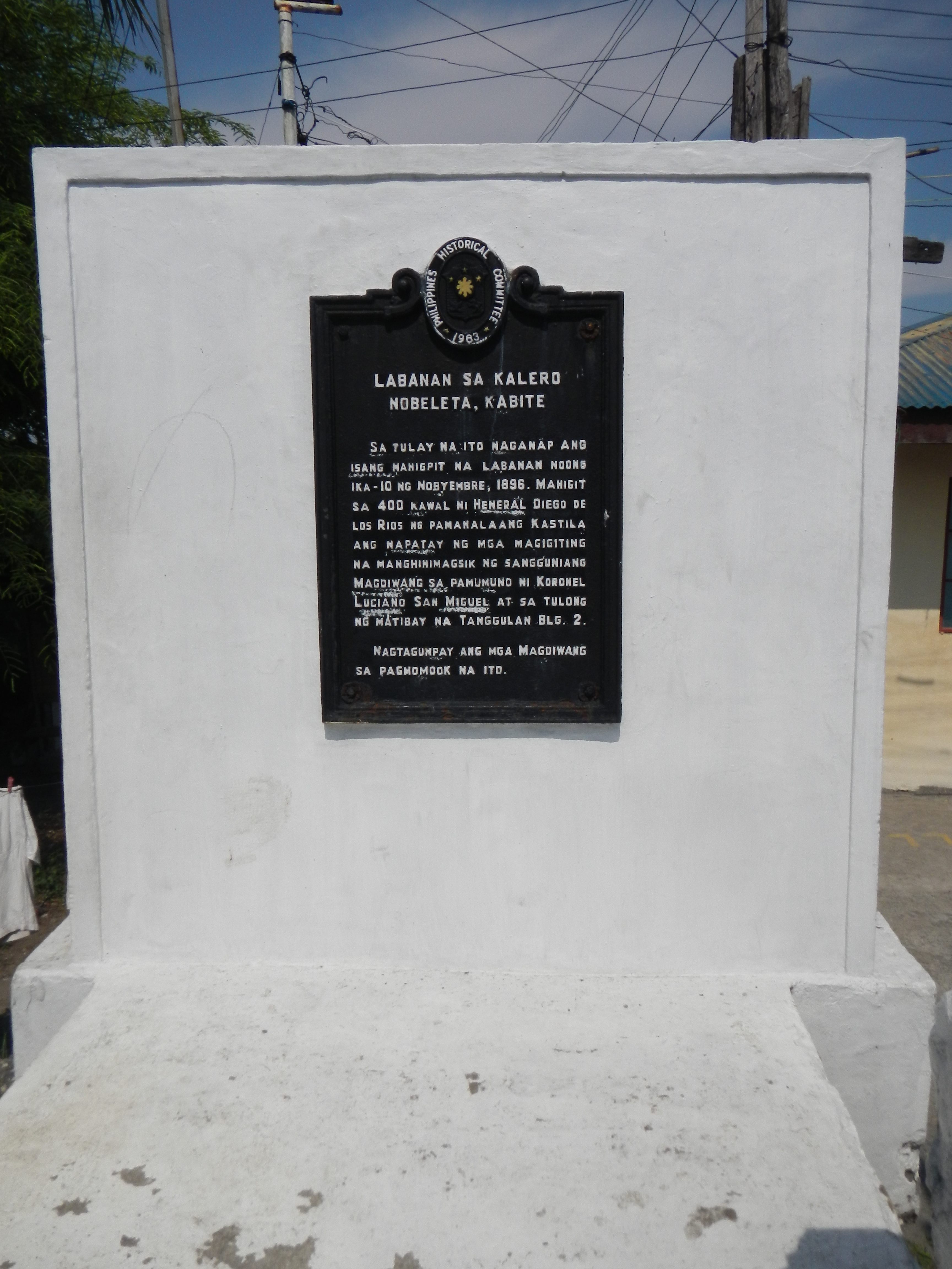 Battle of Noveleta[1] --- "Labanan sa Kallero" -- Calero (Soriano) Bridge, San Rafael IV, Noveleta, Cavite[2] - November 10, 1896 - was a major battle during the Philippine revolution and was one of the very first engagements of the revolution in Cavite. In the latter part of the revolution, Noveleta played a key role for the Magdalo[3] and Magdiwang factions. From its capture by the Magdiwang at the start of the revolution, various battles were fought and won by Filipino rebels in Cavite. Noveleta became the seat of the Magdiwang faction of the Katipunan.[4] The Battle of Calero Marker commemorates the battle at the bridge where 400 Spaniards were killed by Filipino heroes.[5] The Calero Bridge on the other hand was also a battle ground during the Philippine Revolution where the bravery of Filipinos prevailed over Spanish forces. Noveleta is home to a lot of revolutionary generals and a memorial marker for all of them is yet to be constructed by the local government. ---------[N.B. Photography of Noveleta, Cavite and Rosario, Cavite[6]: 30% cloudy and 70% sunny weather using my Nikon AW 100 waterproof shockproof camera. From Bulacan at 9:35 a.m., I took photo of the Baliuag Transit Original station, and at 11:38 a.m., the 5th Avenue LRT Station[7]; then I arrived at Rosario, Cavite and captured Noveleta Battle bridge at 2:08 pm, and then the Salinas Town or Rosario, Cavite at 2:33 pm and finished photography at 7:04 pm, and arrived at Bulacan at 11:30 pm after 4+ hours of travel by bus, and started uploading via slow internet at 11:40 pm - I hereby certify that these raw, original and unedited photos are exclusive for Commons and Wikipedia never uploaded in any Internet or any site, and for the public domain without any condition.]